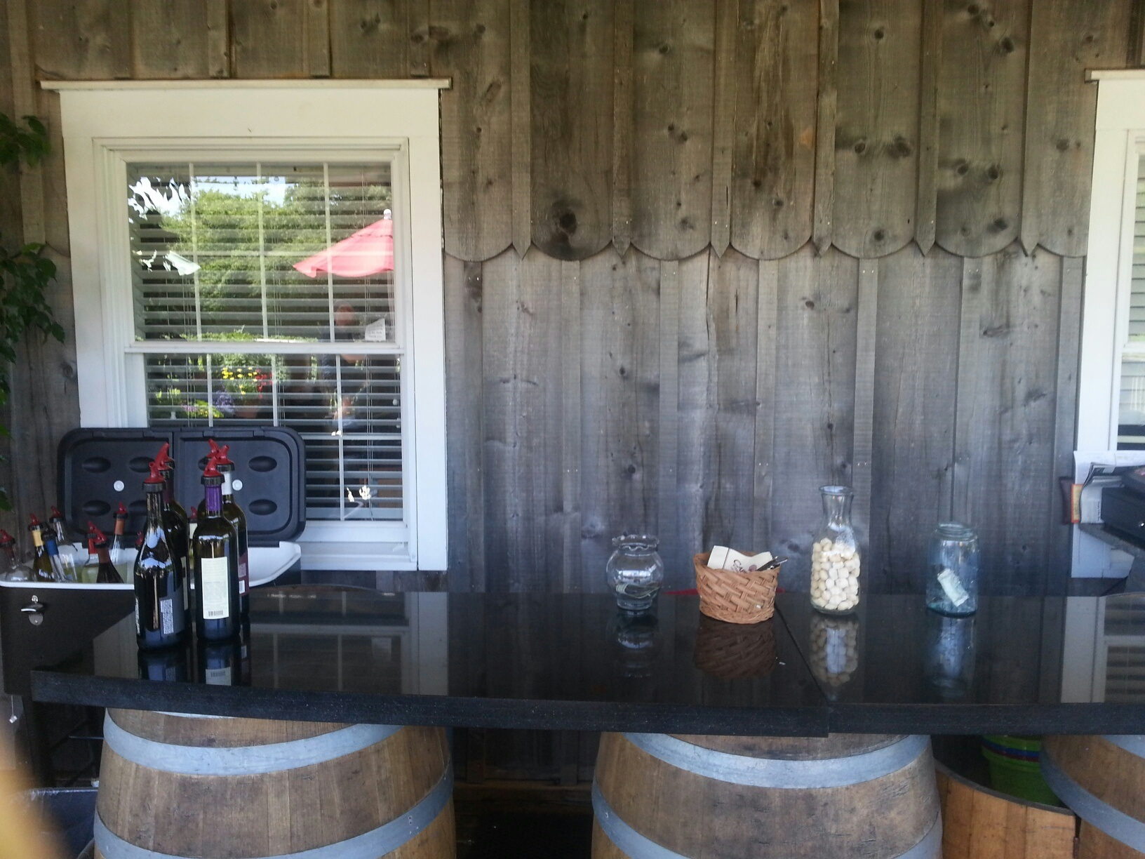 A picture of the outdoor tasting area at Cape May Winery & Vineyard in North Cape May, NJ. Cape May Winery has a deck with an outdoor tasting bar.